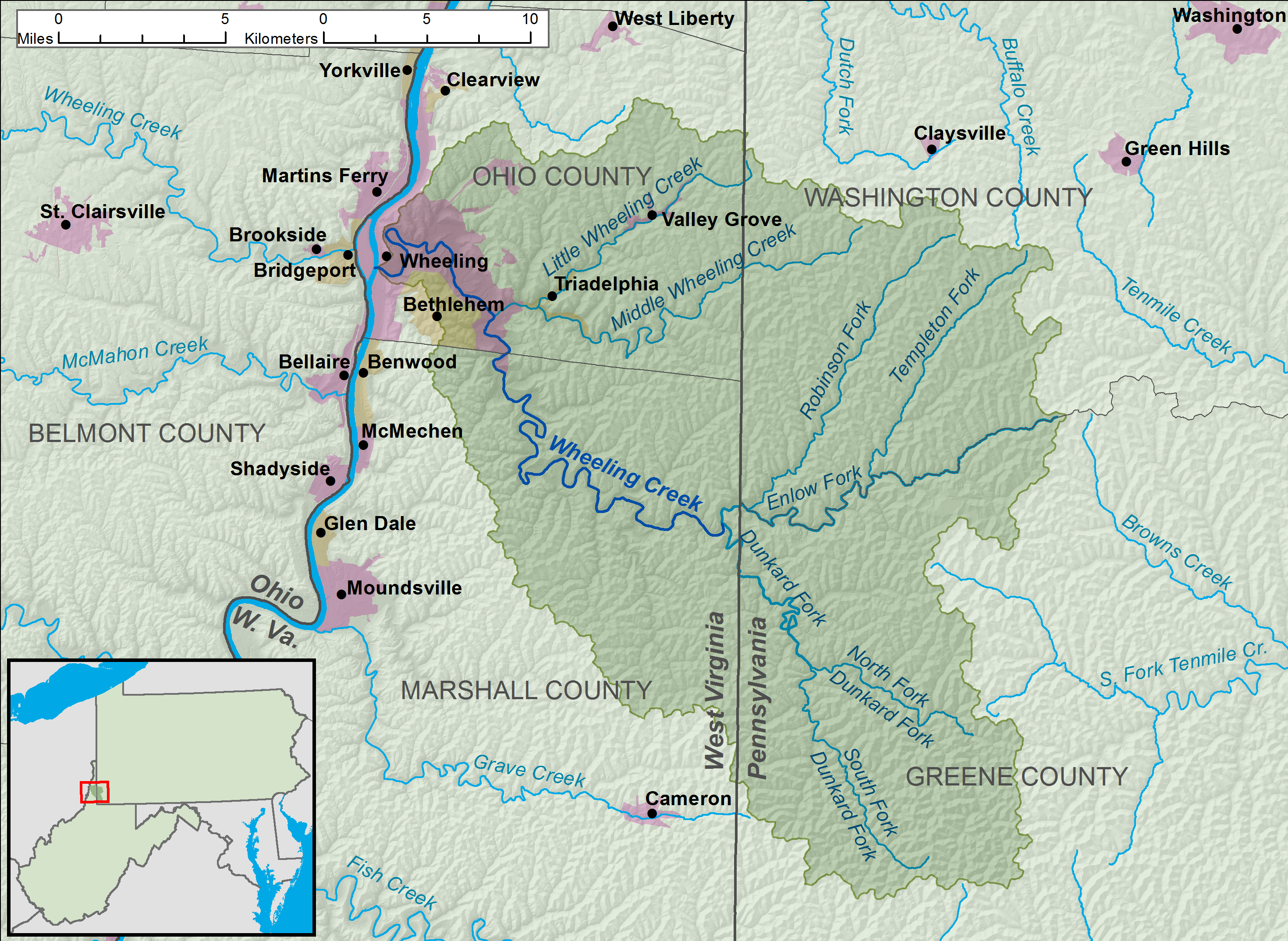 A map of Wheeling Creek and its watershed (USGS HUC-10 codes 0503010604, 0503010605, and 0503010606) in Greene and Washington Counties in Pennsylvania; and Marshall and Ohio counties in West Virginia.